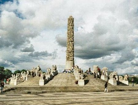 The monolith in the Frogsnerpark, taken by David Cross in July, 1997.